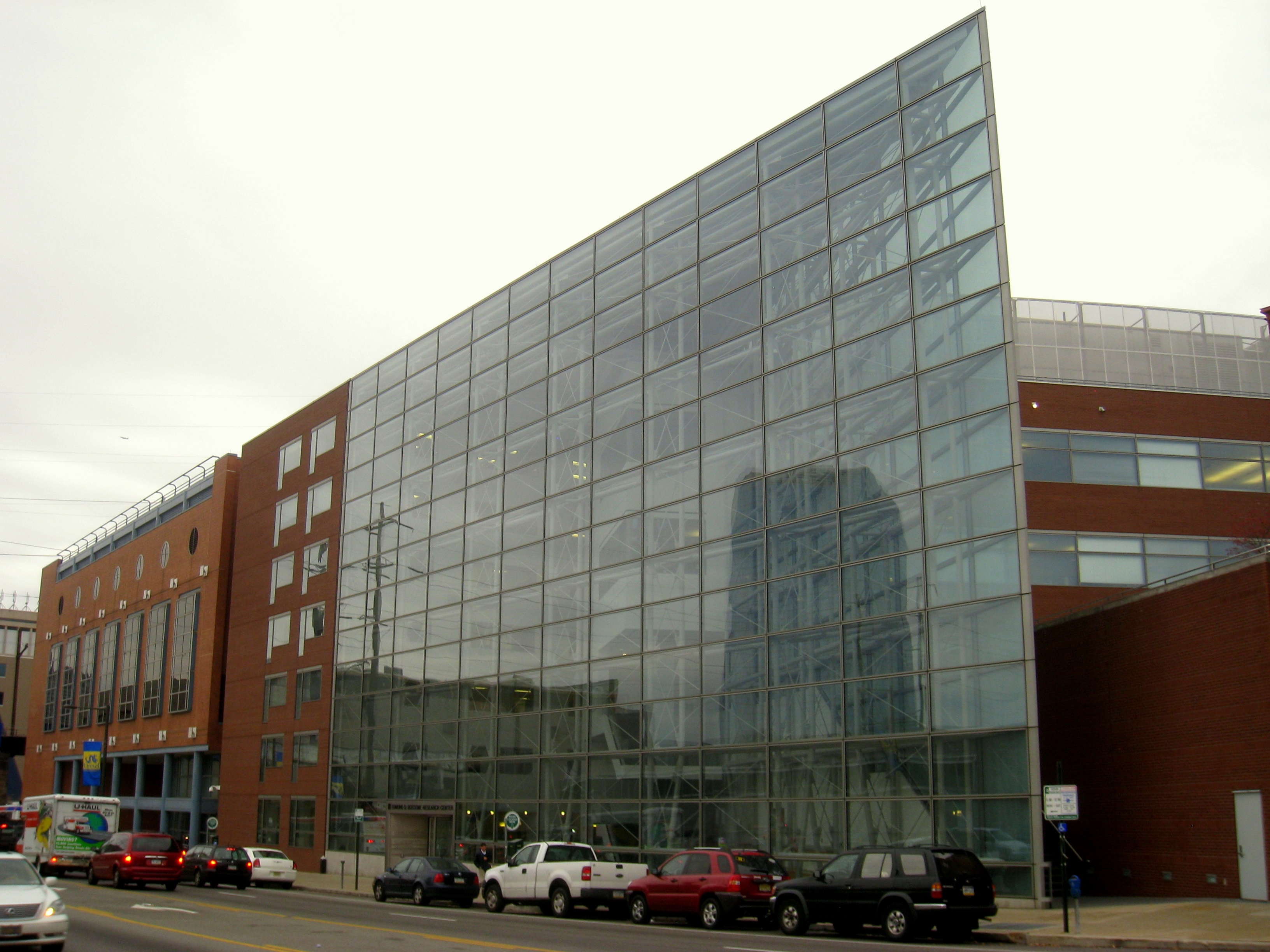 Bossone Research Enterprise Center, Drexel University, 3120-24 Market Street, Philadelphia, Pennsylvania, USA.